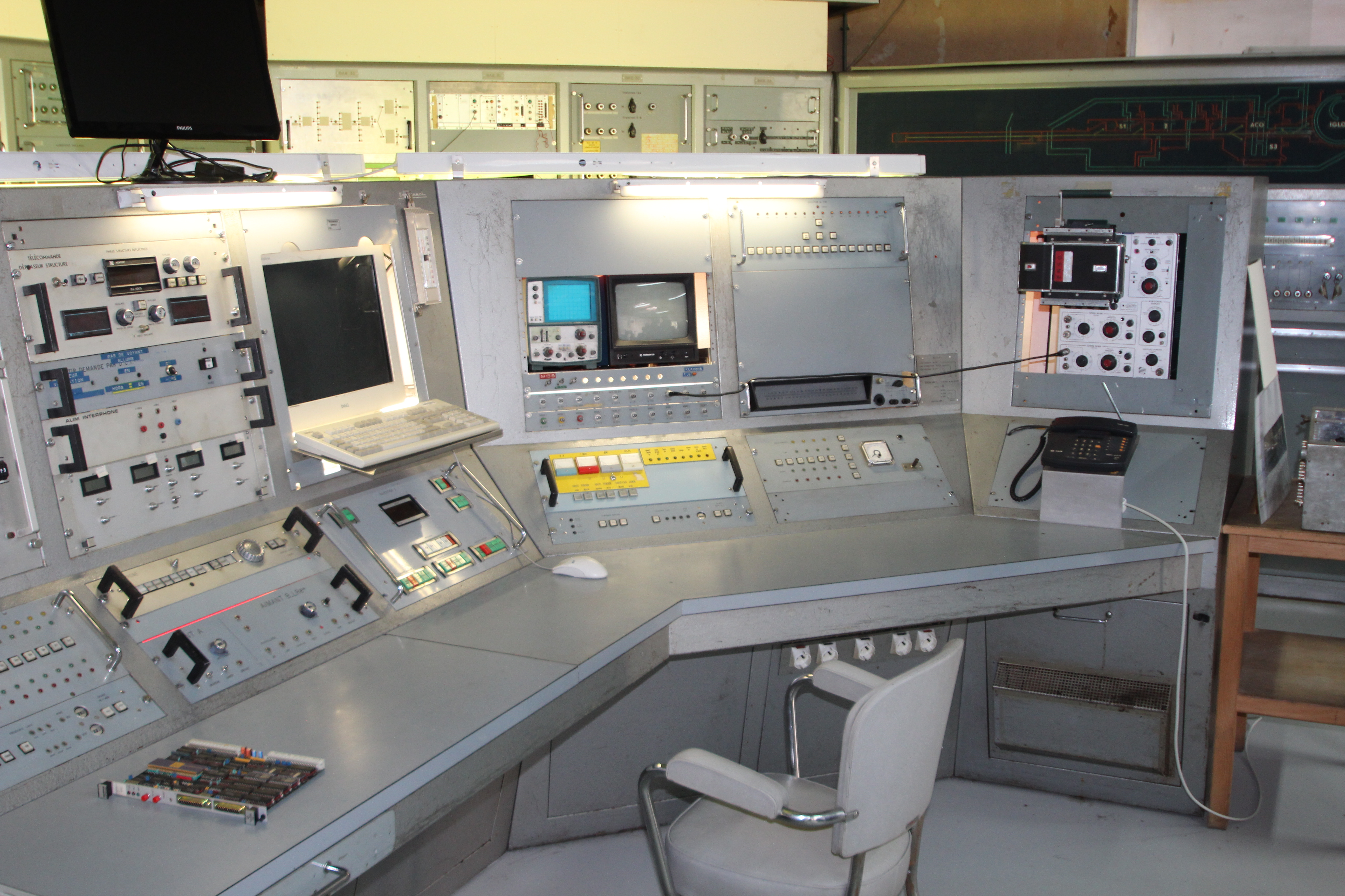 Ring accelerator of Orsay, France. Object location48° 41′ 55.97″ N, 2° 10′ 21.43″ E .